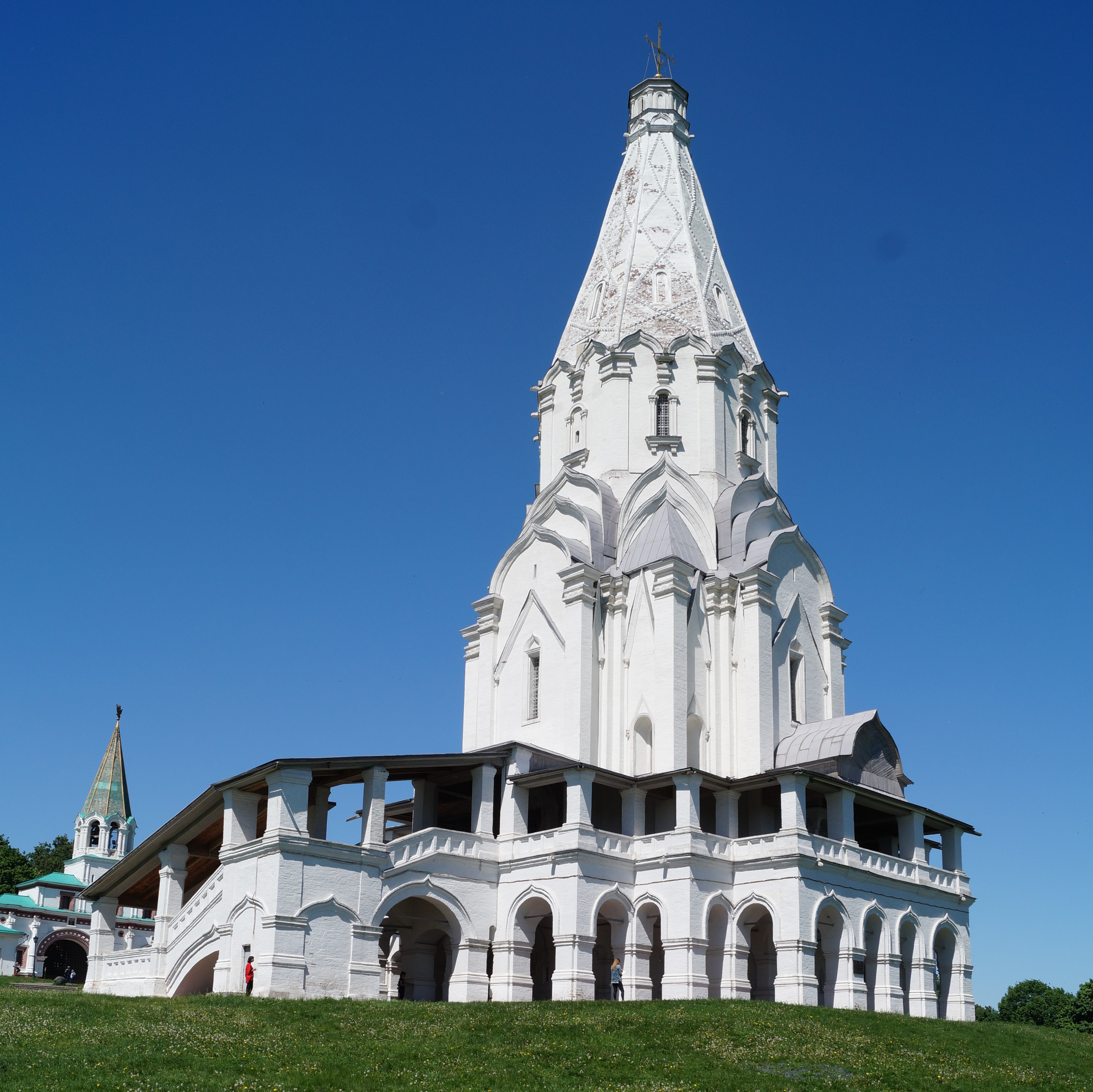 Church of the Ascension in Kolomenskoye (Moscow)